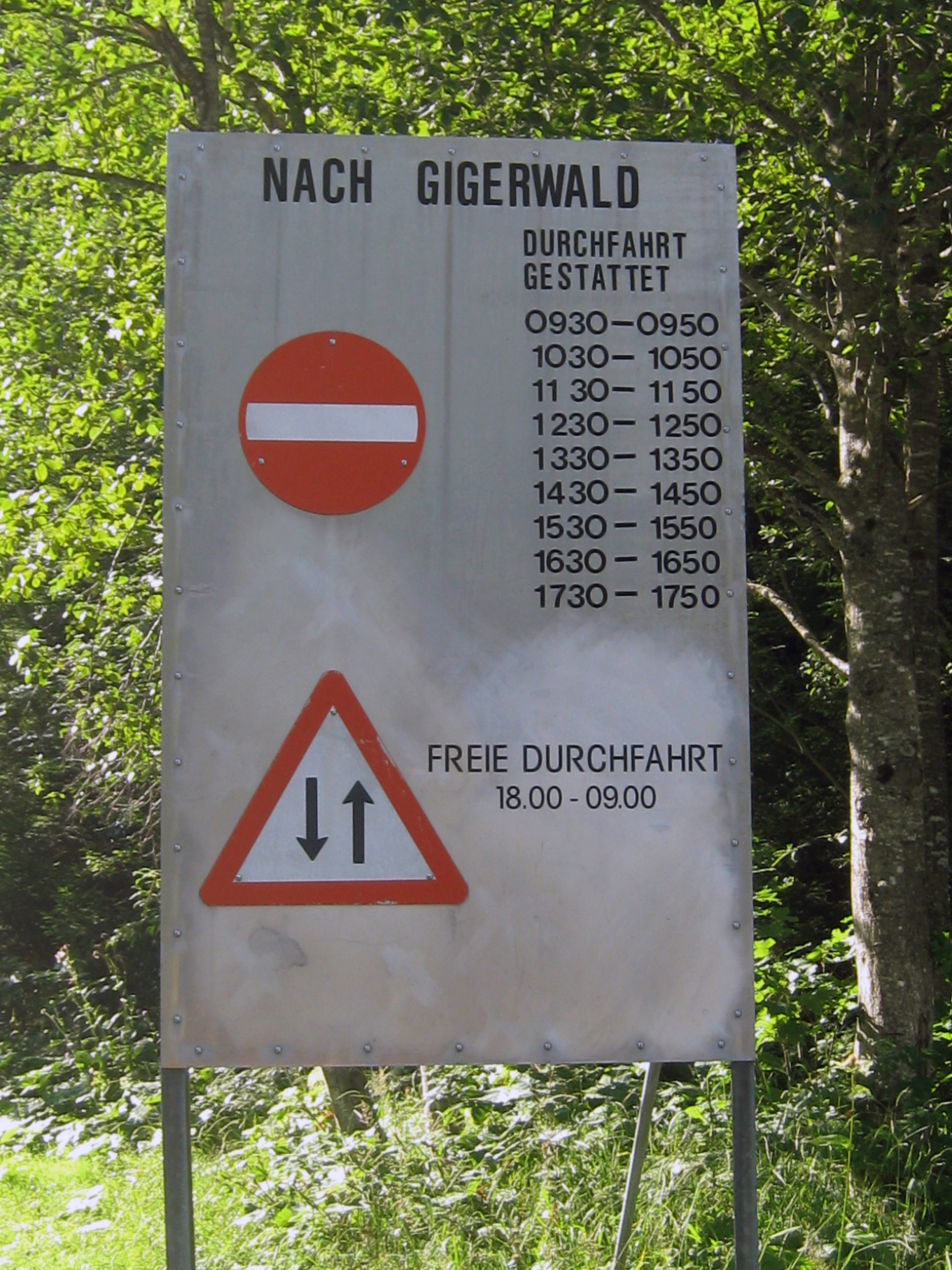 St. Martin, Calfeisental, Pfäfers, Switzerland, road sign